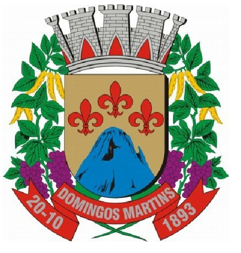 Coat of Arms of the city of Domingos Martins, Espírito Santo state, Brazil. Own work, based on the description of the law of the creation of the coat of arms; Emerson